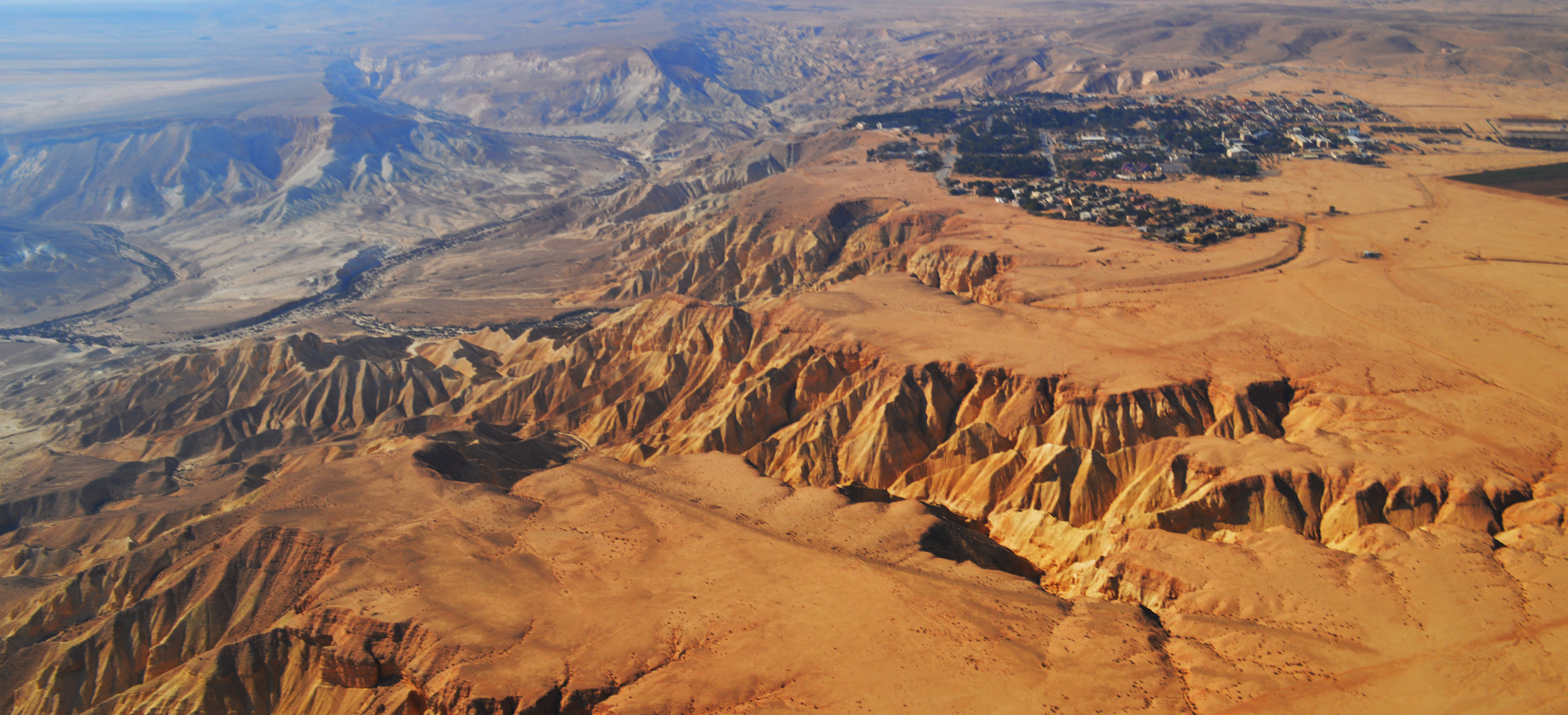 Nahal Zin Aerial View